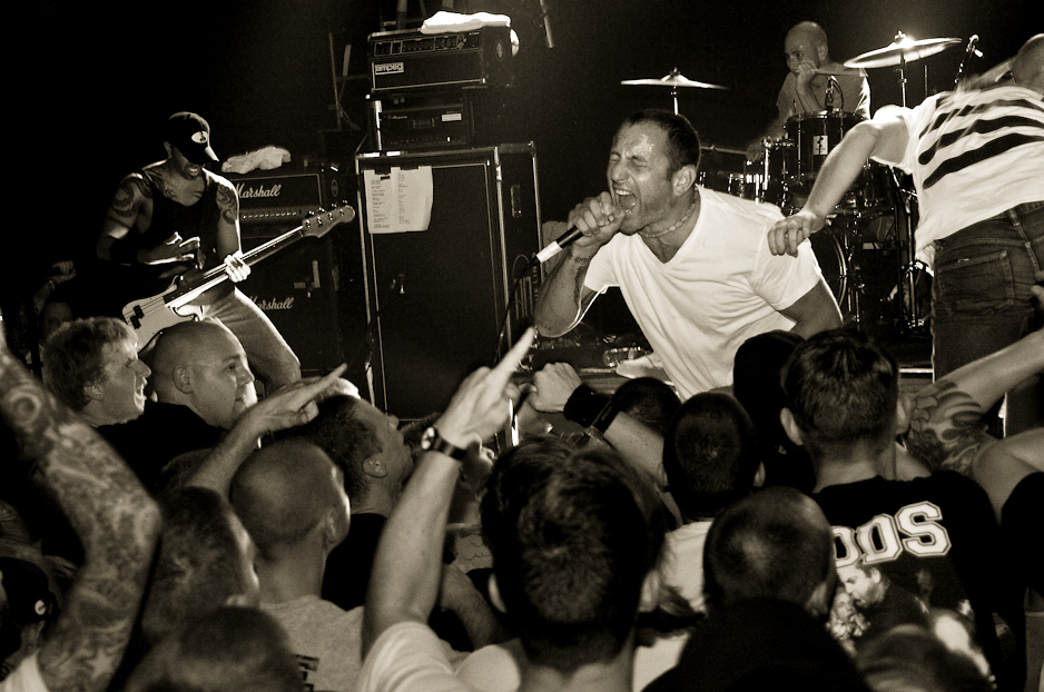 Youth of Today performing in SO36, Berlin.